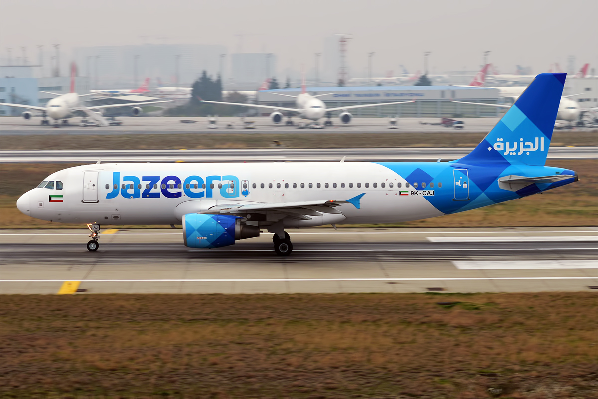 Jazeera Airways, 9K-CAJ, Airbus A320-214